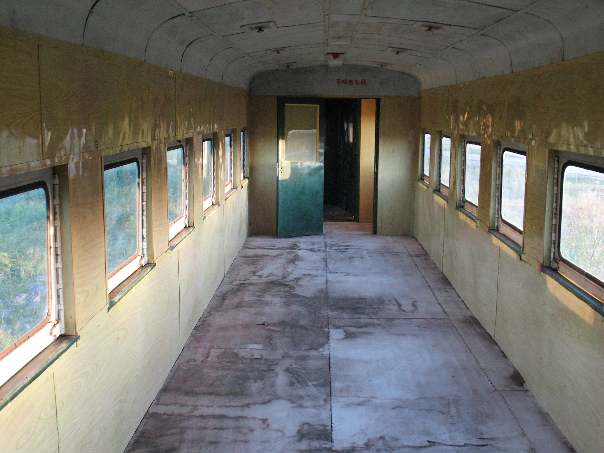 Inside the carriage of the train run on Arxan Forrest narrow gauge.